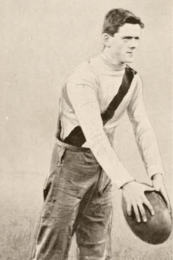 Photograph of Alf Gough from the 1910 Weekly Times Victorian Footballer Postcard Series